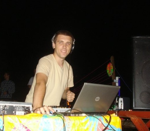 Arronax performing at The Gathering 2009